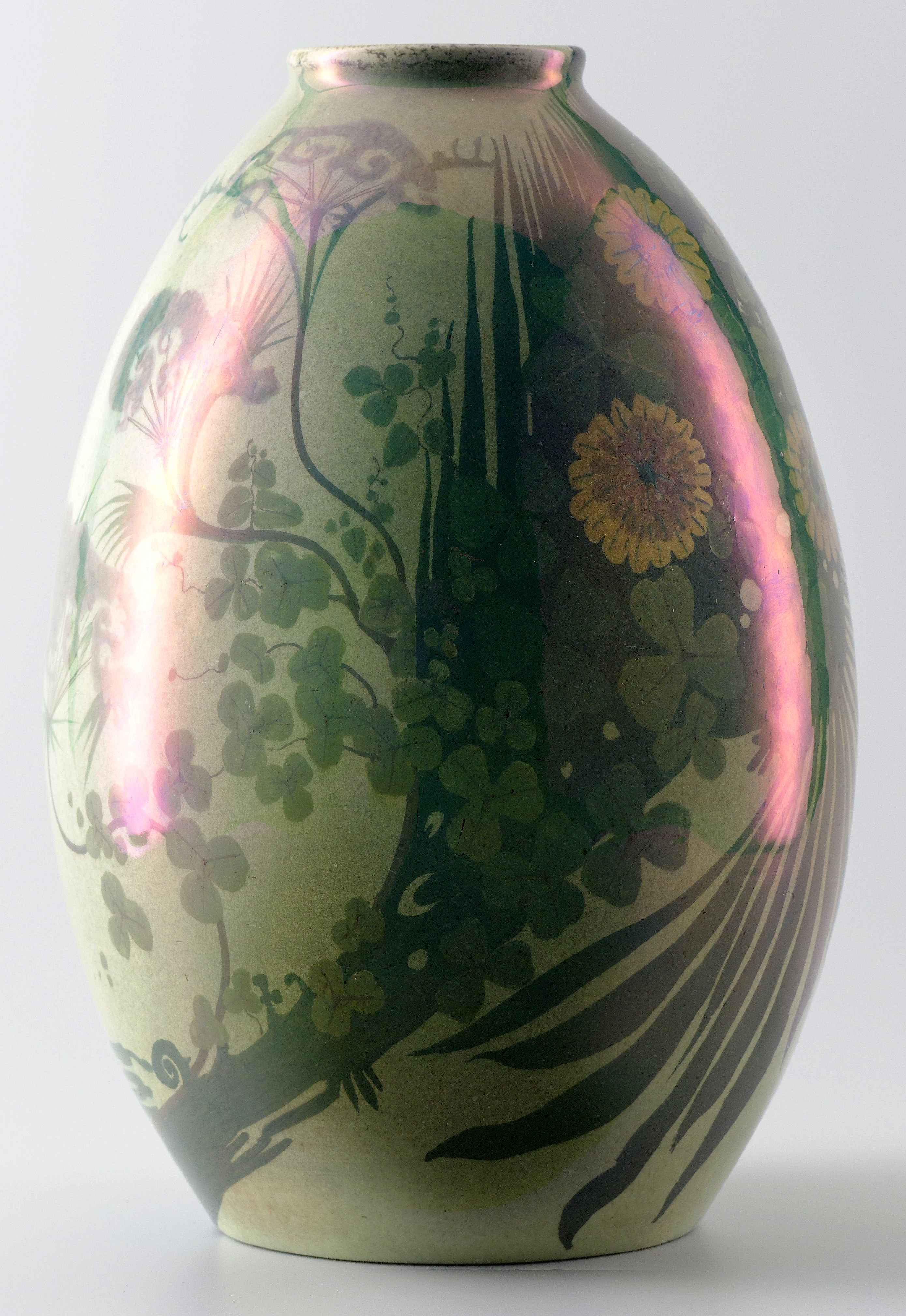 Vase with painted butterflies and plants in yellow and brown on green surface, with luster glaze. Factory Stamp, 29, ontw. C.J. Lanooy and monogram of Philippus van Praag.